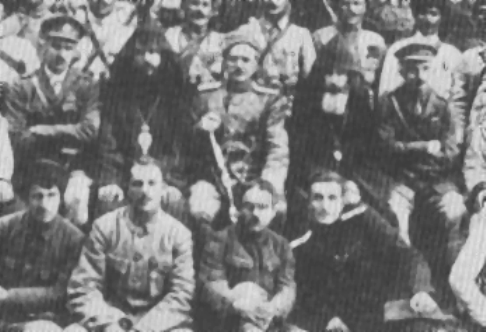 Just after the deceleration of Treaty of Batum, Zoravar Andranik who is in the middle, was fighting with his Fedayees who are surrounding him. Picture was taken just after the establishment of the Republic of Mountainous Armenia. The identity of British officer is unknown.